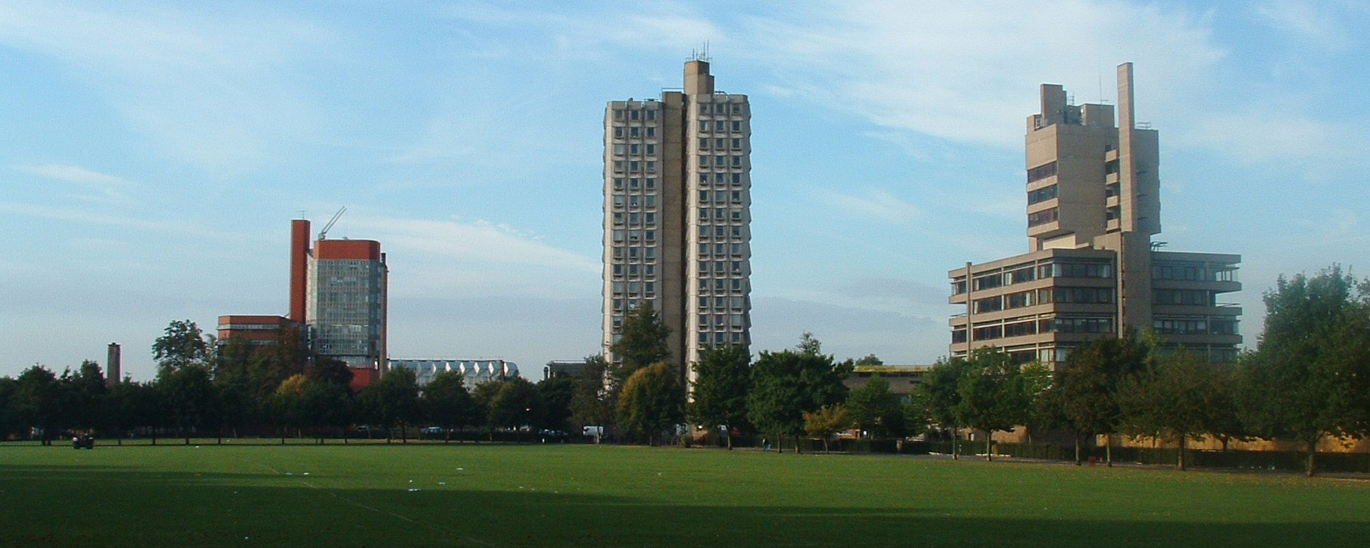 The University of Leicester, with the Attenborough building in the centre Taken by User:Andrew Norman, Sept 2003